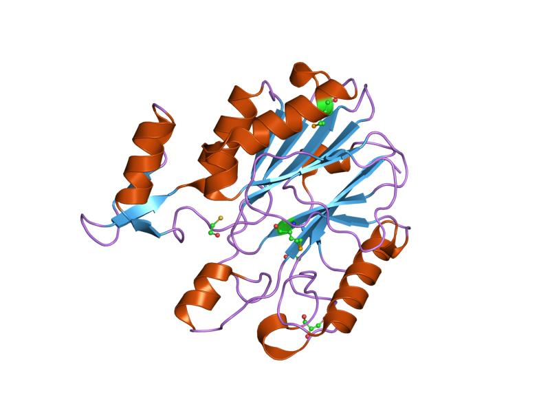 Cartoon representation of the molecular structure of protein registered with 1xfj code.